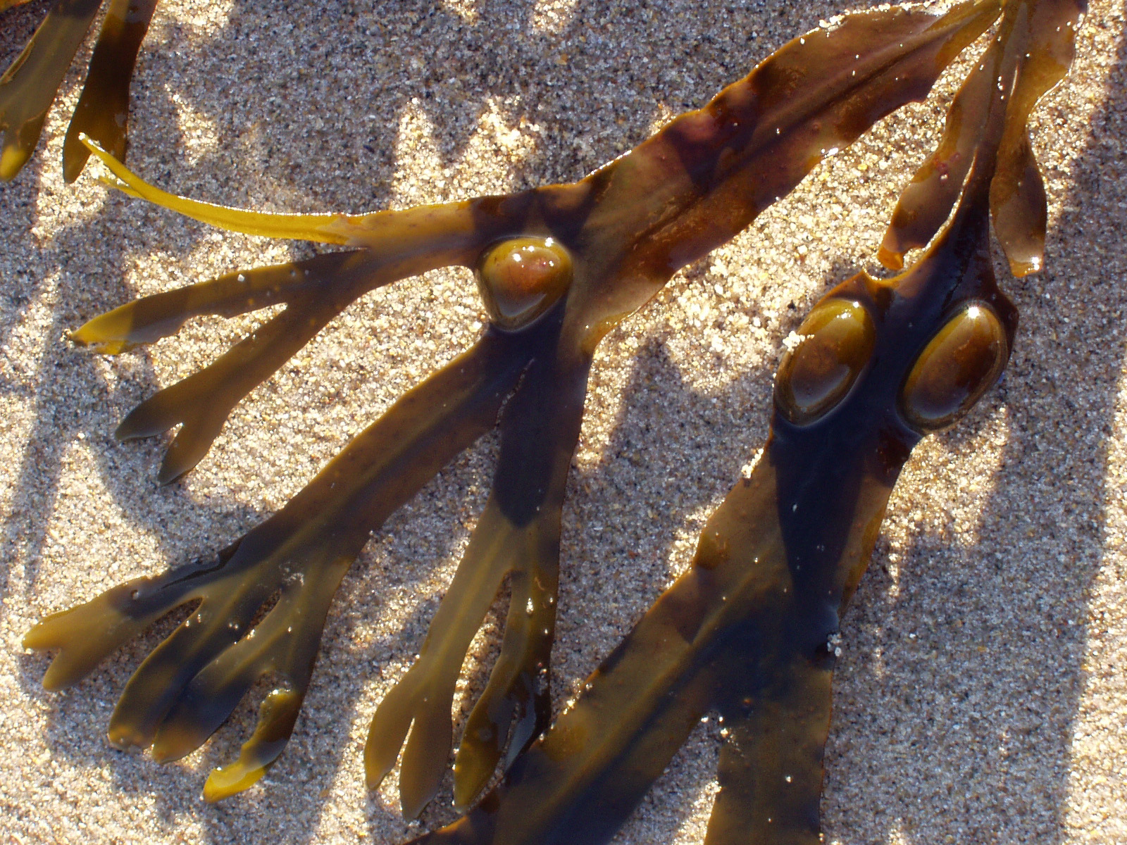 Close-up of bladder wrack, Fucus vesiculosus, washed up on Porth Trecastell, Anglesey, Wales.